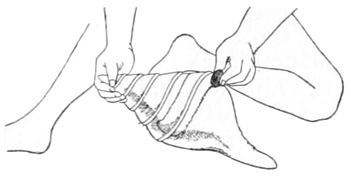 Preparing the half-moon shaped nose-pin from the shell of Syrinx aruanus by indigenous peoples of Australia on the Pennefather River, Queensland.